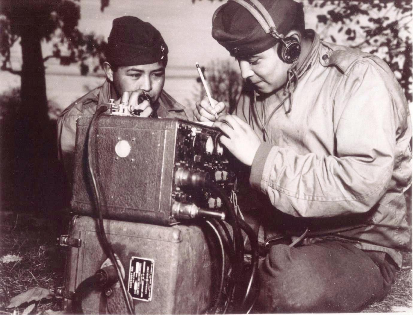 Left to right: PFC Preston Toledo of Albuquerque, New Mexico and his cousin PFC Frank Toledo of Penistaja, New Mexico, at Ballarat, Australia with the 11th Marines in July 1943. From the Photograph Collection (COLL/3948) at the Marine Corps Archives and Special Collections OFFICIAL USMC PHOTOGRAPH